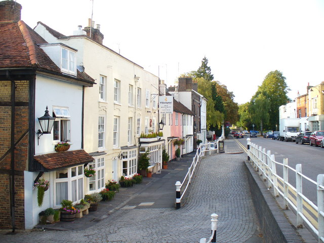 High Street, Hemel Hempstead. Historic buildings line the old town High Street. Many have former coaching links when this was a main route to and from London.